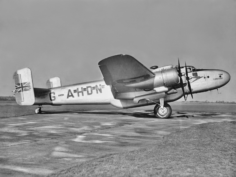 Handley Page HP.70 Halton (G-AHDN), BOAC, 1947